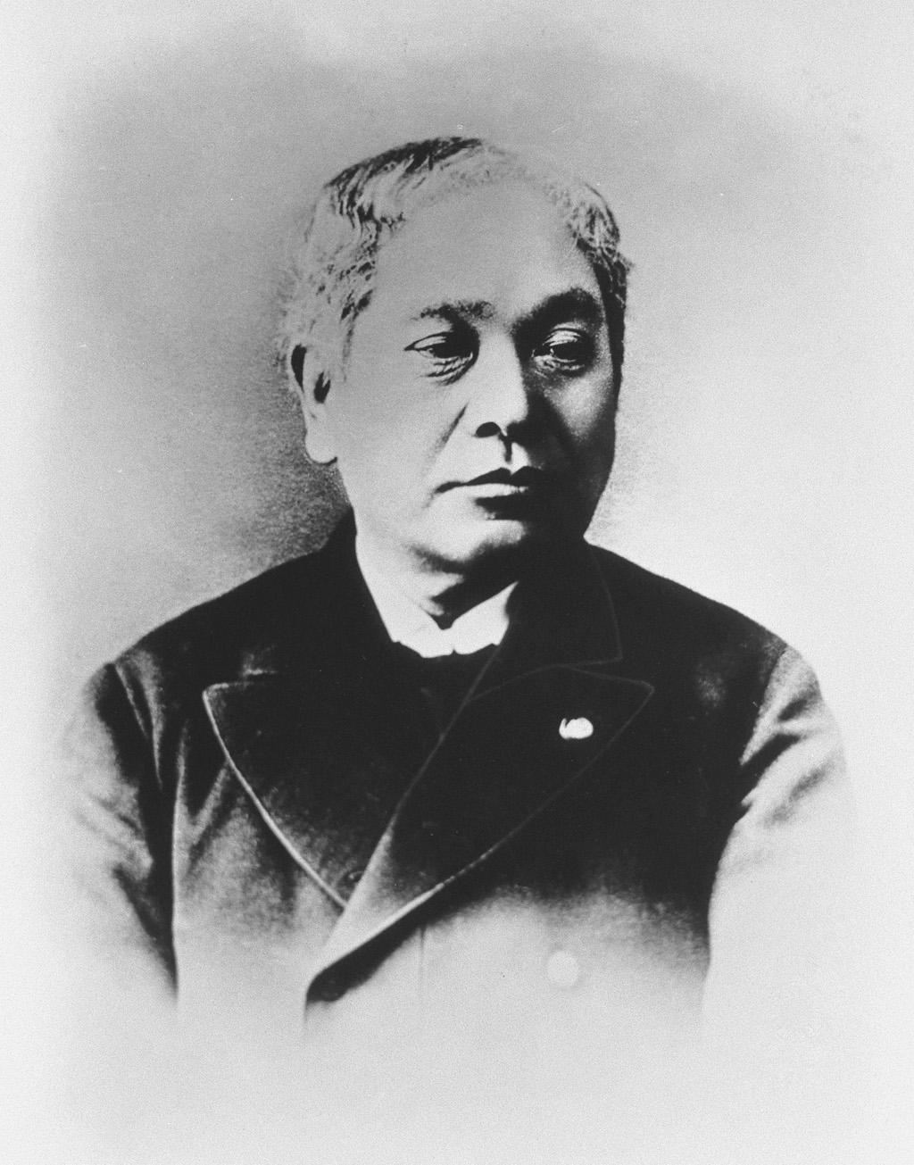 Portrait of Oki Takato (大木喬任, 1832 – 1899)